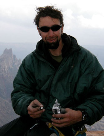 Ammon on the summit of the Streaked Wall